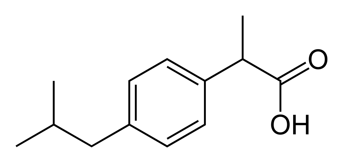 Skeletal formula of ibuprofen, C13H18O2. Stereochemistry deliberately not indicated, to show the racemic nature of household ibuprofen. Structure drawn in ChemDraw Ultra 11.0.